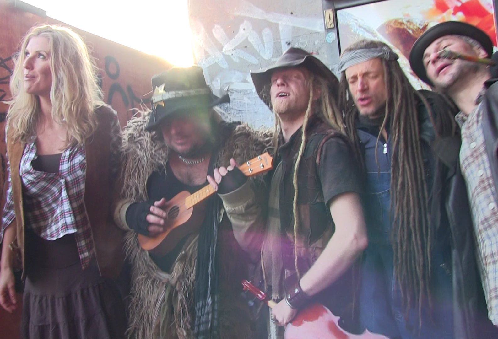 Rednex video recording in Berlin 2015-12-31